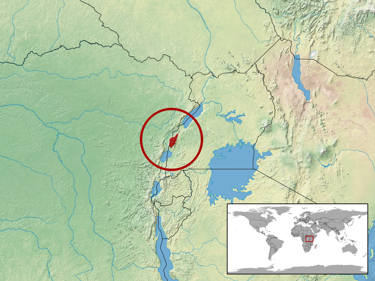 geographic distribution Panaspis helleri